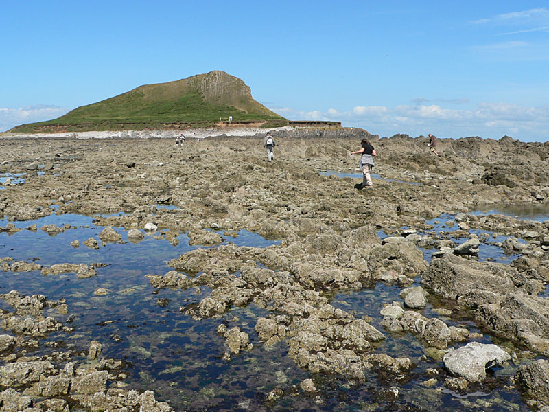 Worms' Head Causeway, Gower, Wales, UK